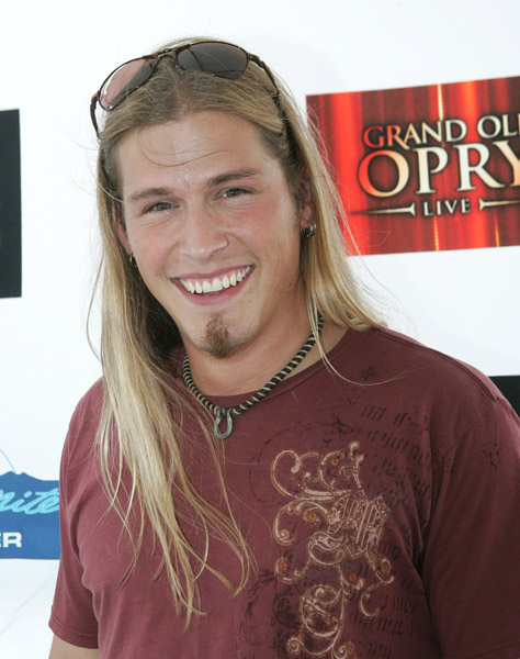 Jason Michael Carroll at the City of Hope Softball Challenge